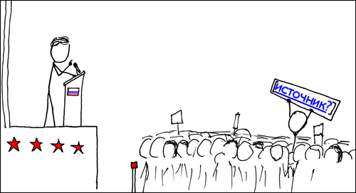 xkcd webcomic 285 entitled "Wikipedian Protestor". Note that this image was originally meant to be displayed with the tooltip "SEMI-PROTECT THE CONSTITUTION". The comic is a parody of the wide-spread Citation needed template and the semi-protection policy on the English Wikipedia. Its message is that politicians should state their sources (and stop telling lies), just like Wikipedia tries to.